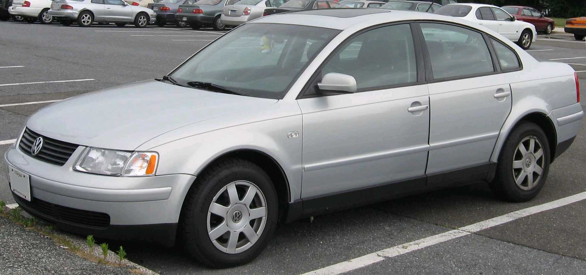 1998-2001 Volkswagen Passat photographed in USA.